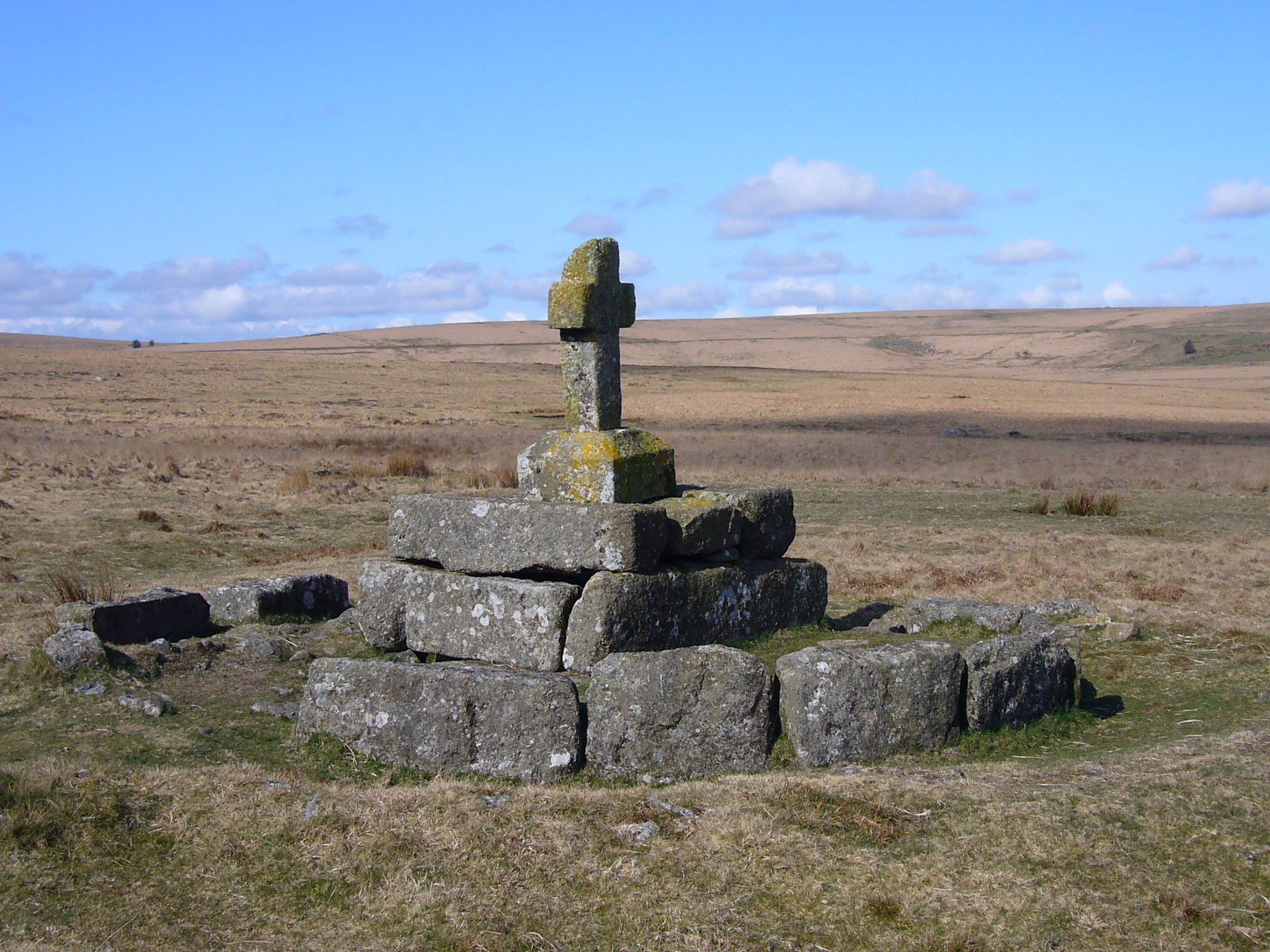 Childe's Tomb is located on the south-east edge of Foxtor Mire on Dartmoor. It is approximately 3 feet 4 inches (1 m) tall and 1 foot 8 inches (0.5 m) at the crosspiece. Legend has it that the cross was erected over the kistvaen (burial chamber) of Childe the Hunter.